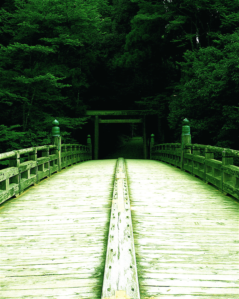 Bridge of a shinto temple.